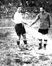 SC Corinthians v. Chelsea FC match, in Sao Paulo. Both captains salute before the game starts.